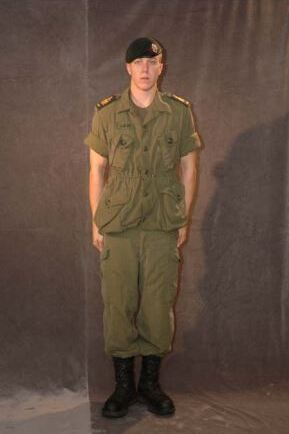 A Cadet wearing the C5 order of dress